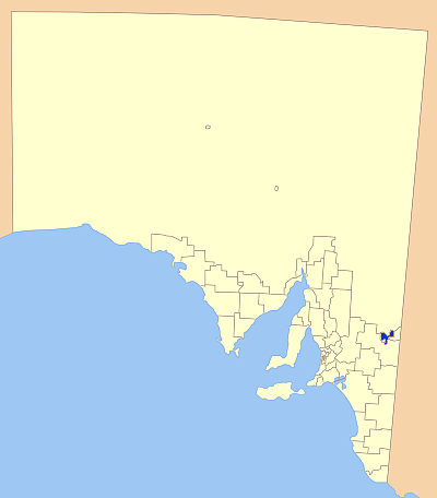 Map of South Australia showling the location of the Berri Barmera Local Government Area. A modification of GDFL map by Astrokey44; found here: File:SA_LGA_blank.png